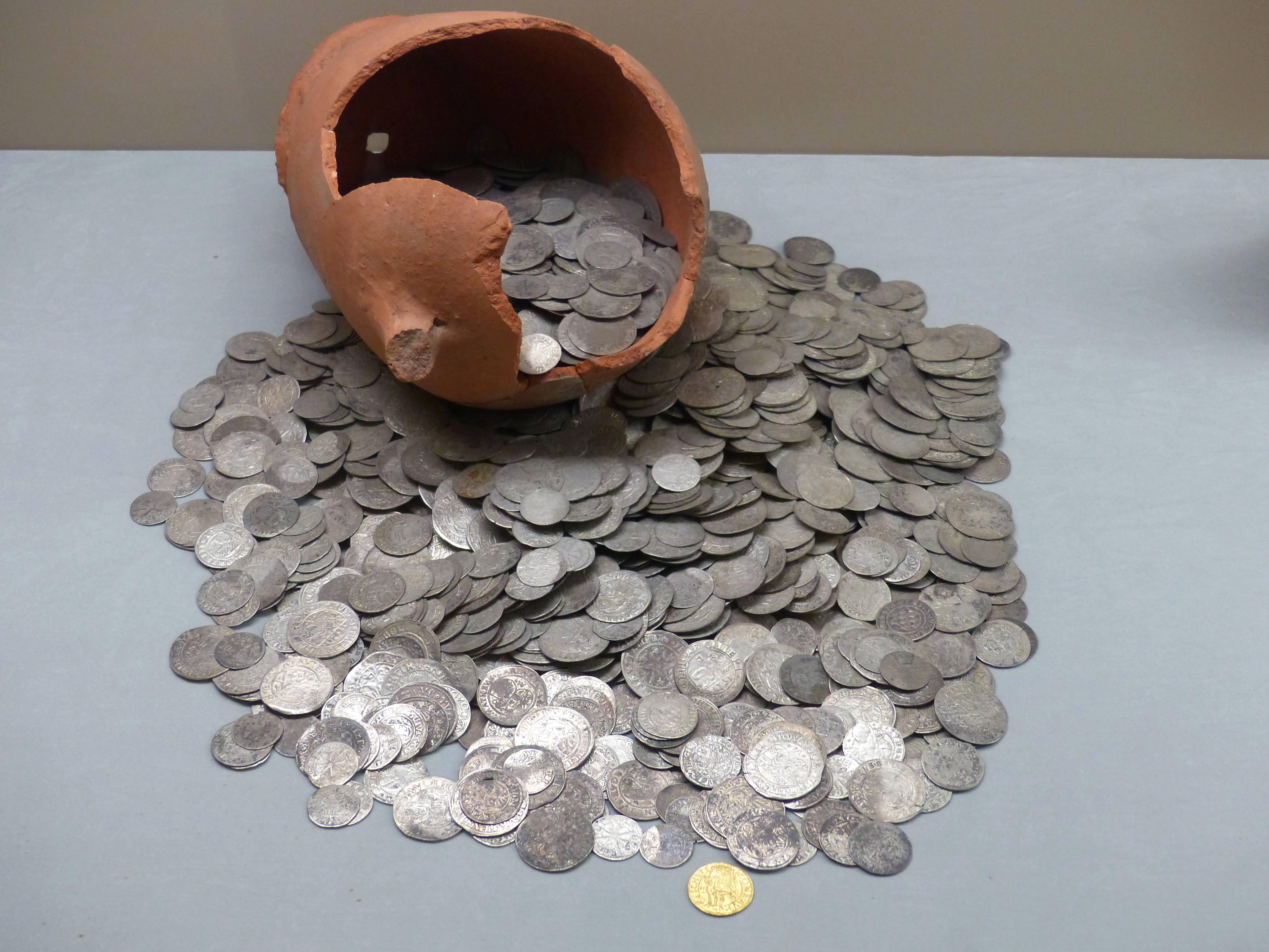 Eisenstadt ( Austria ). Burgenland Country Museum: Coin hoard of Mattersburg, consisting of 2328 silver and 1 golden coin, hidden during the Ottoman invasion in 1527